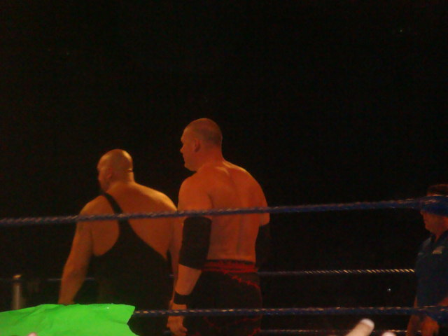 WWE wrestlers Big Show and Kane